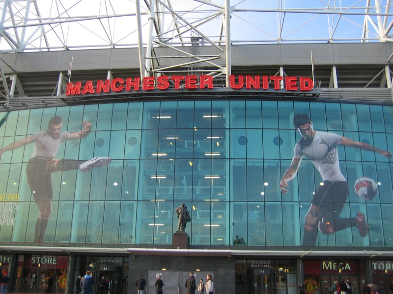 Old Trafford entrace